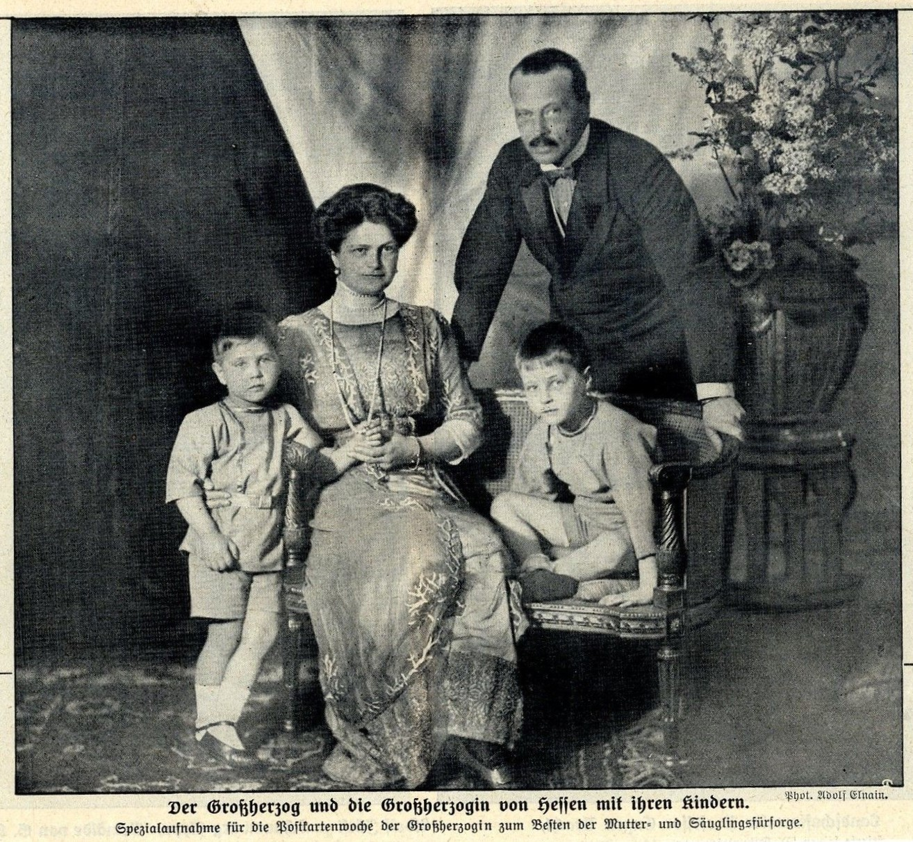 L to R: Louis, Prince of Hesse and by Rhine, Eleonore of Solms-Hohensolms-Lich, Ernest Louis, Grand Duke of Hesse and Georg Donatus, Hereditary Grand Duke of Hesse, 1912